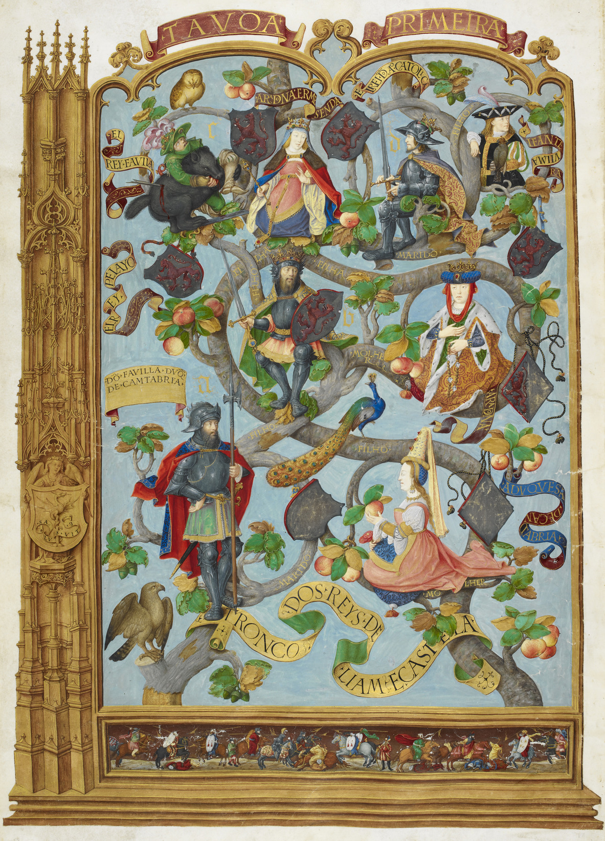 Genealogy of the Kings of the Asturias, from Favila, Duke of Cantabria (d.739) to Vilmeran; in the margin is depicted a church tower; at the foot, the battle of St. Maria de Cobadonga